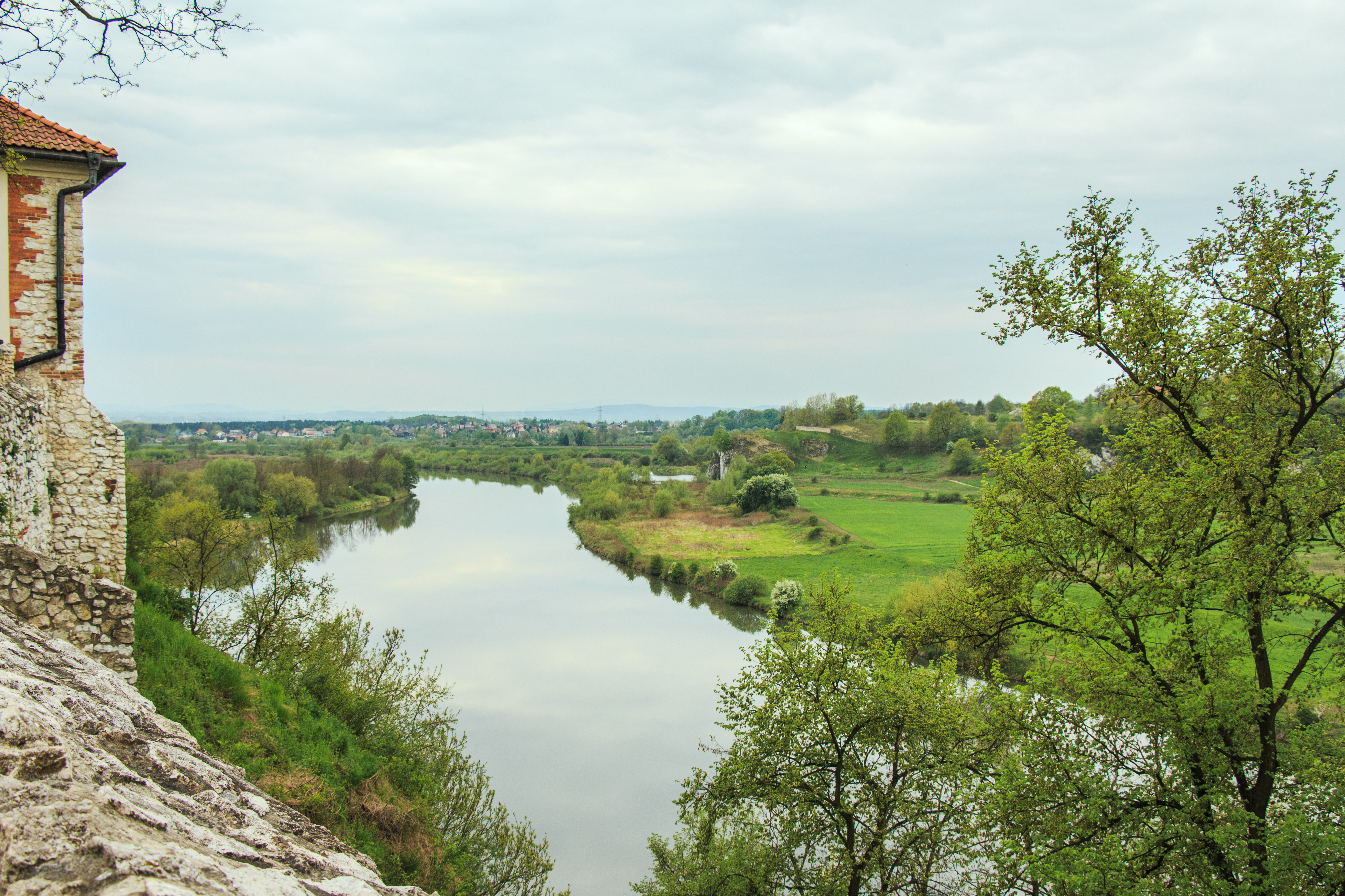 The Vistula river in the Benedictine Abbey in Tyniec